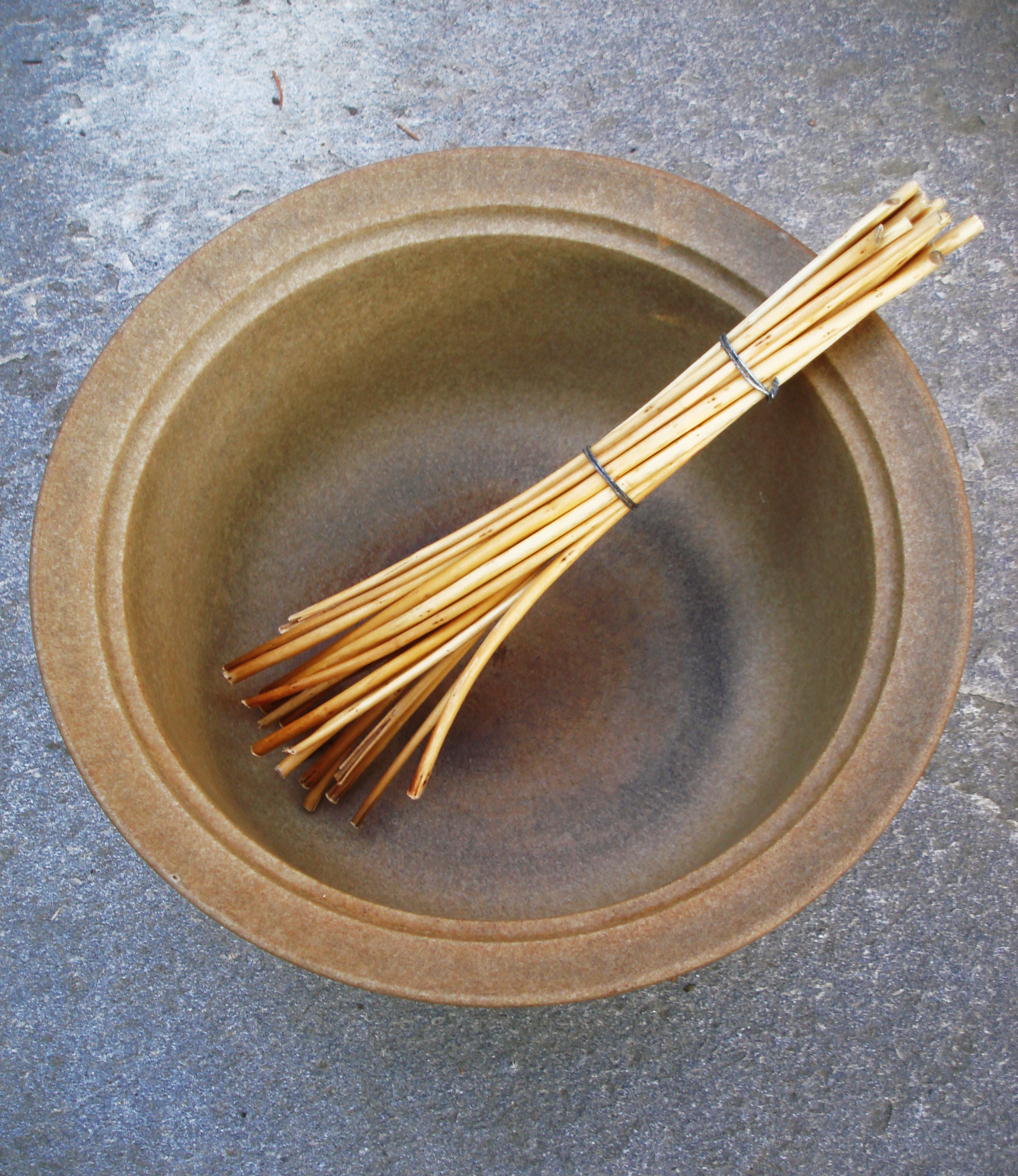 Whisk made of birch twigs